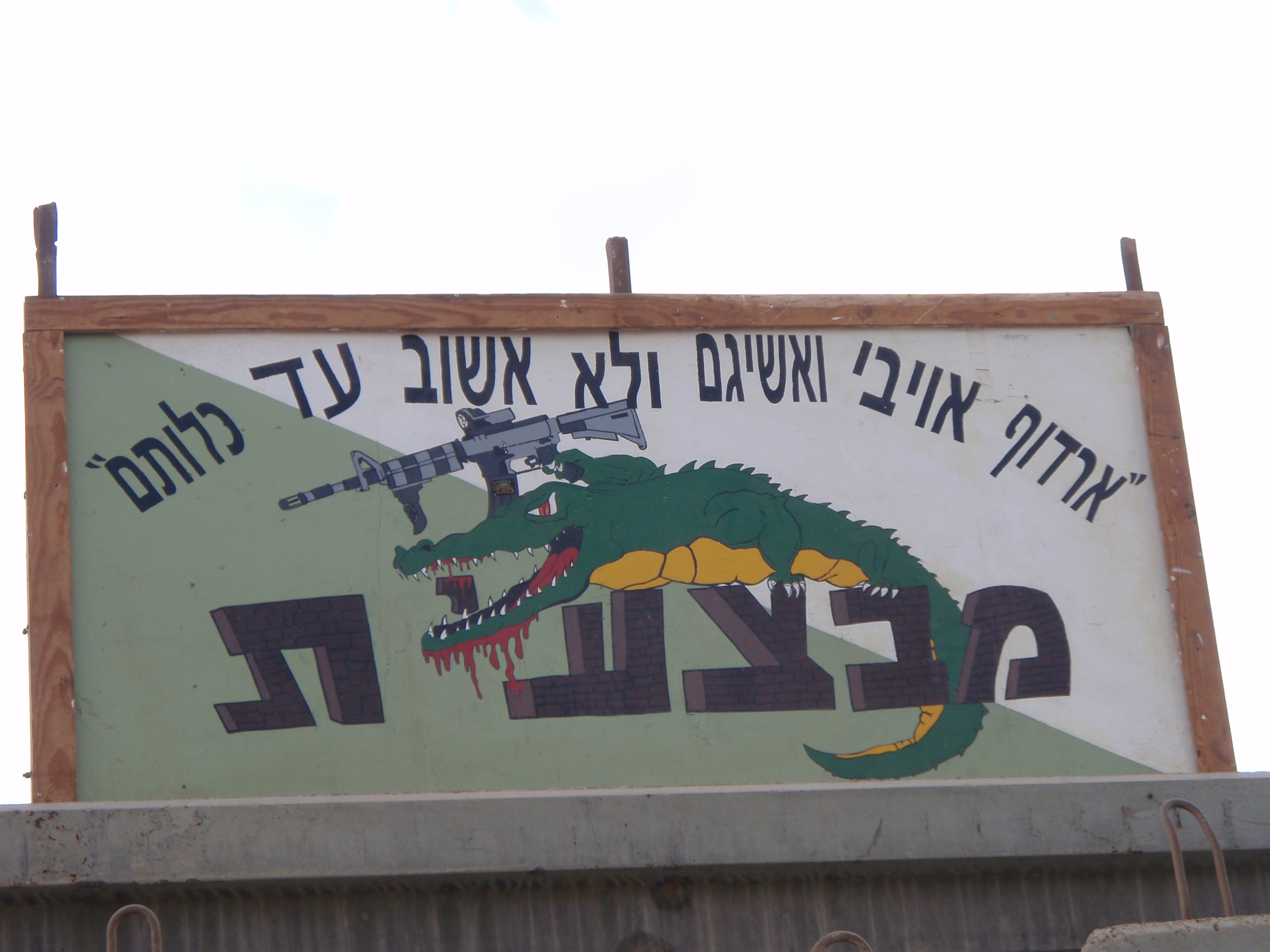 Quote Reads: "I will chase after my enemies, and I will not return until they are consumed"